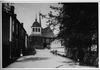 Kyrkogatan, Church street in Kristinestad, in the background Ulrika Eleonora Church